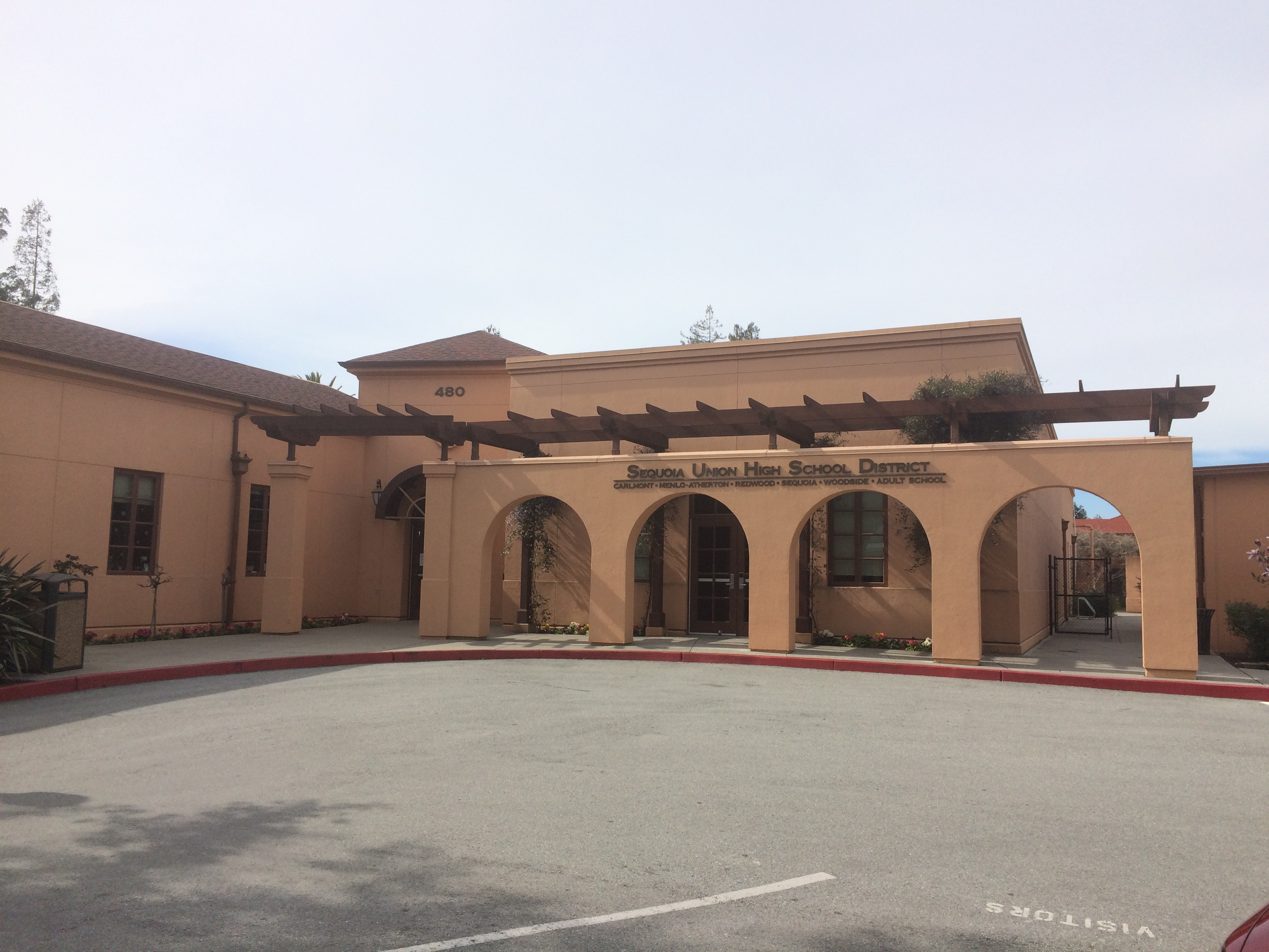 Exterior view of Sequoia Union High School District in Redwood City, California